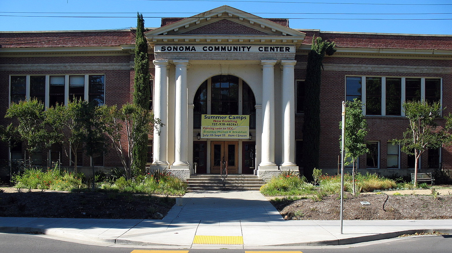 National Register of Historic Places listings in Sonoma County, California. Sonoma Grammar School, 276 E. Napa St., Sonoma, California. Photographed from the south side of East Napa St. between 2nd and 3rd Sts.